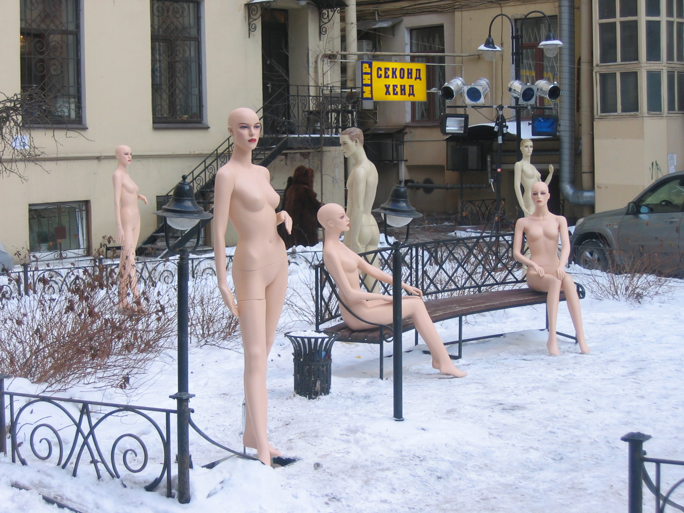 Mannequins placed in the yard of a house.